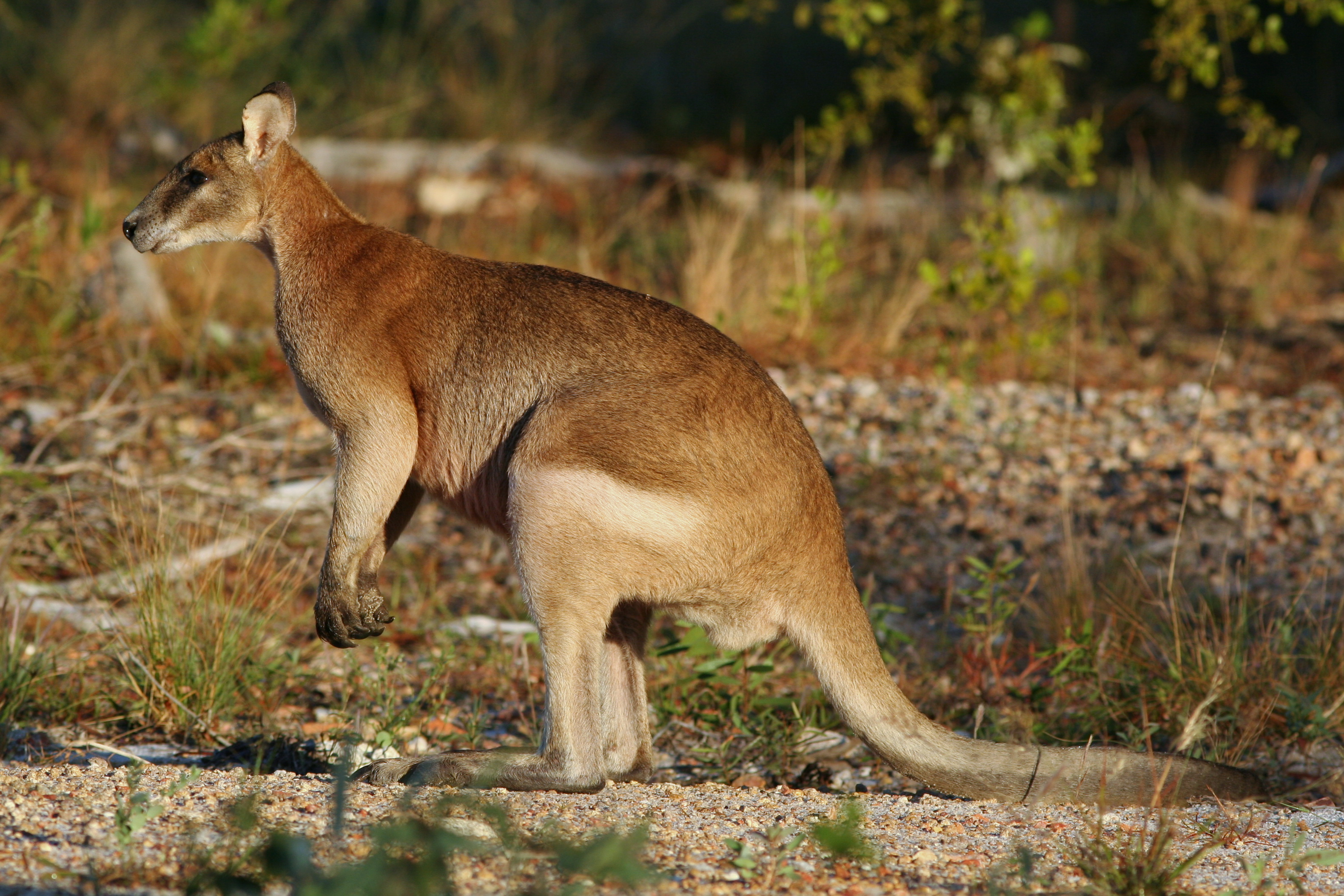 Agile Wallaby Macropus agilis, male; wild animal, Cooktown, Queensland, Australia.